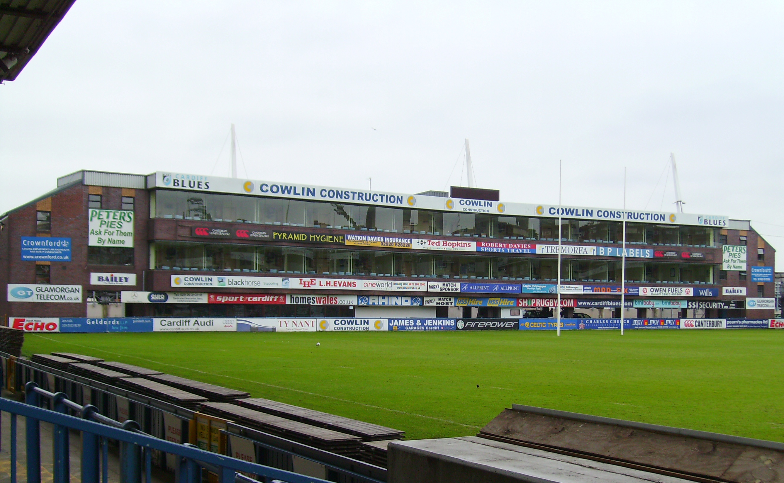 West Stand, Cardiff Arms Park, Cardiff, Wales The West Stand was one of the venues of the 1958 British Empire and Commonwealth Games.